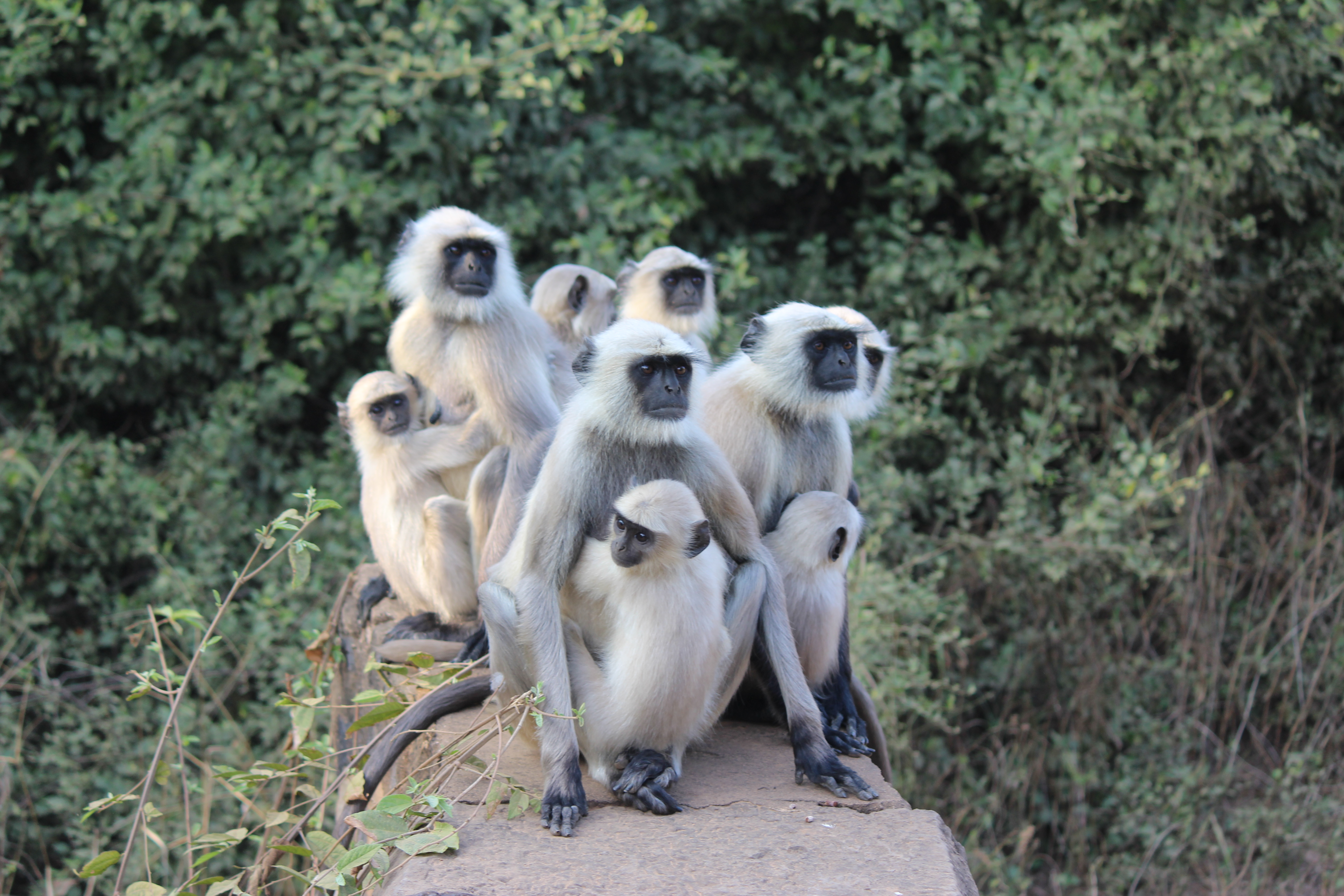 A bunch of monkeys